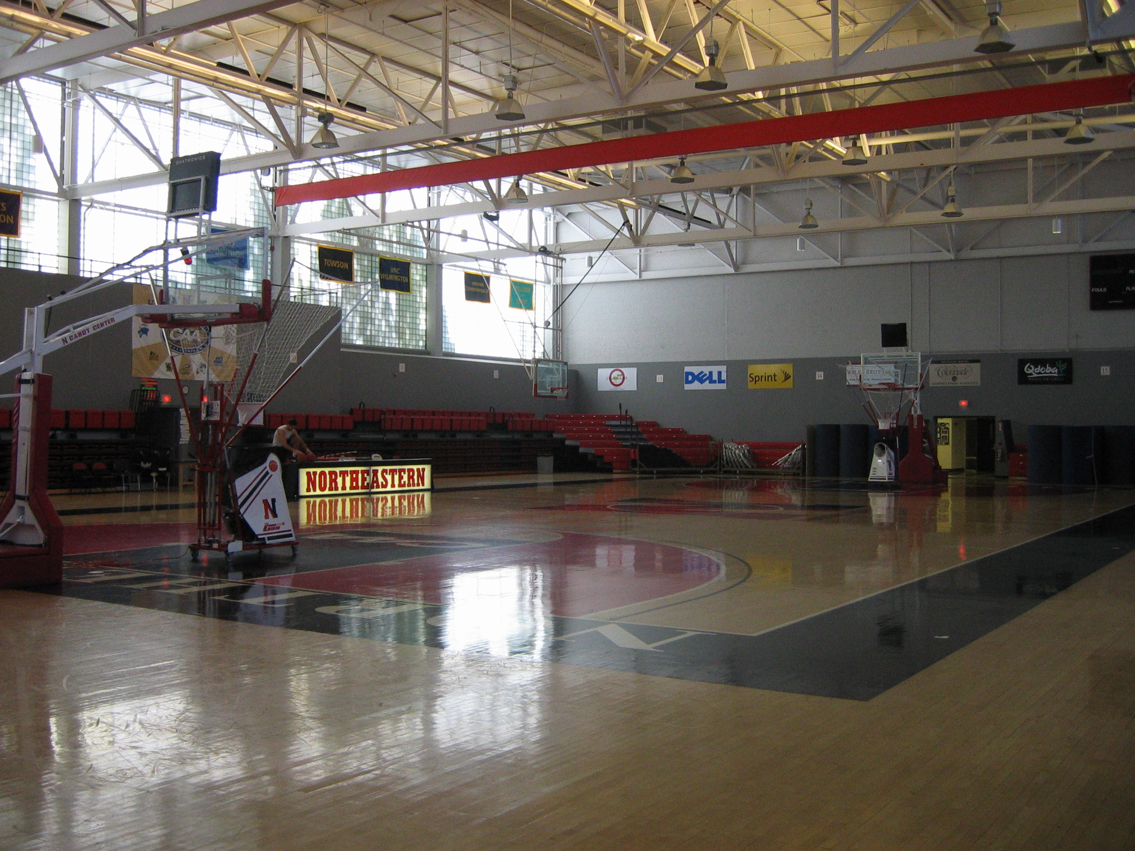 Football & Basketball Facilities Northeastern U Basketball Arena